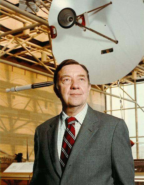 James van Allen at the Smithsonian National Air & Space Museum in Washington D.C., USA.